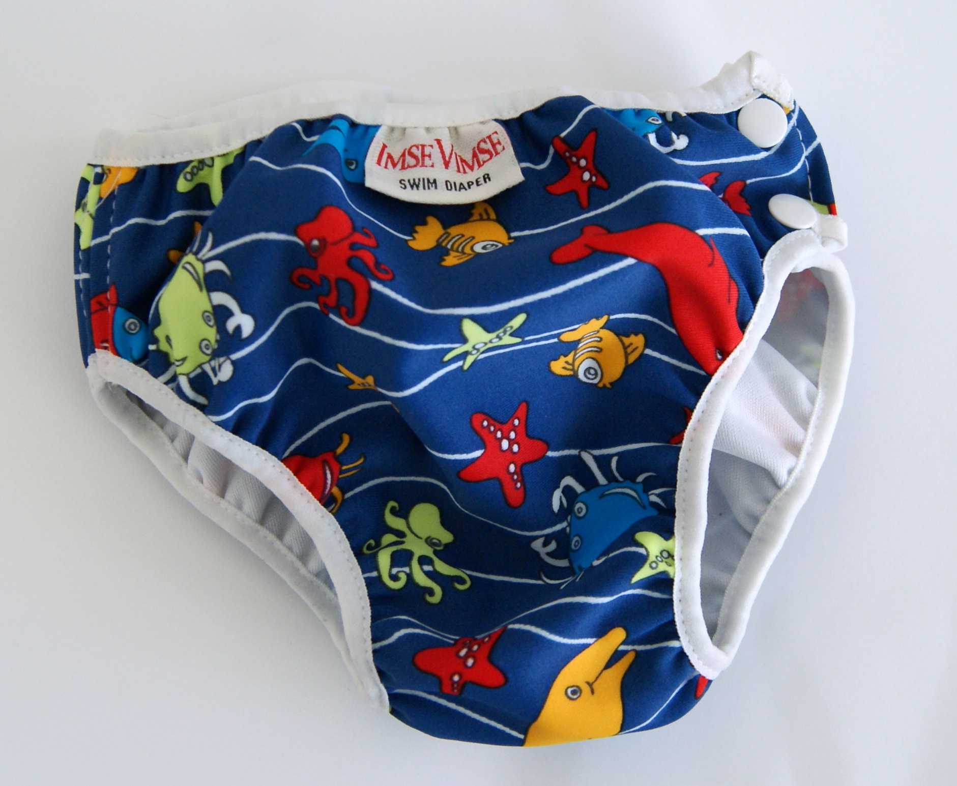 Cloth swimming diaper